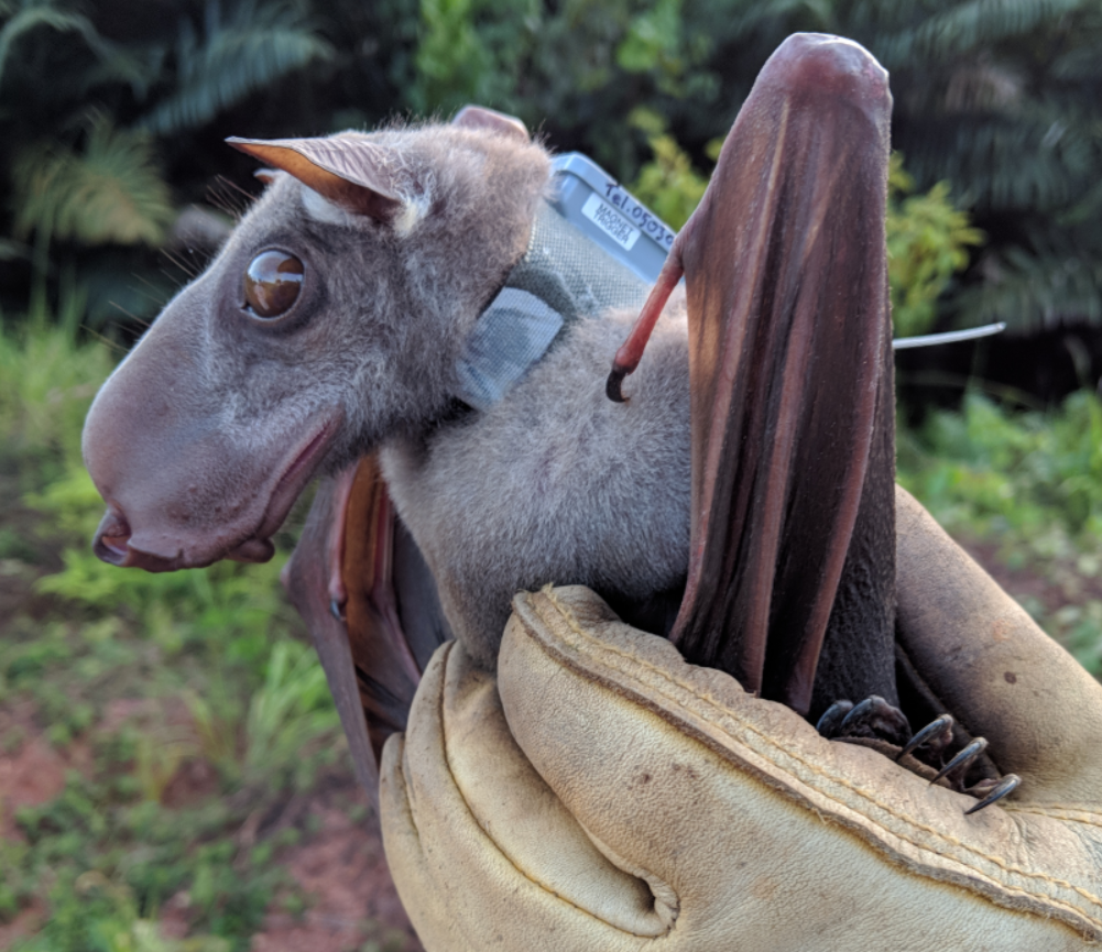 An adult male hammer-headed bat (Hypsignathus monstrosus) viewed in profile. The bat has been fitted with a solar-powered GPS collar